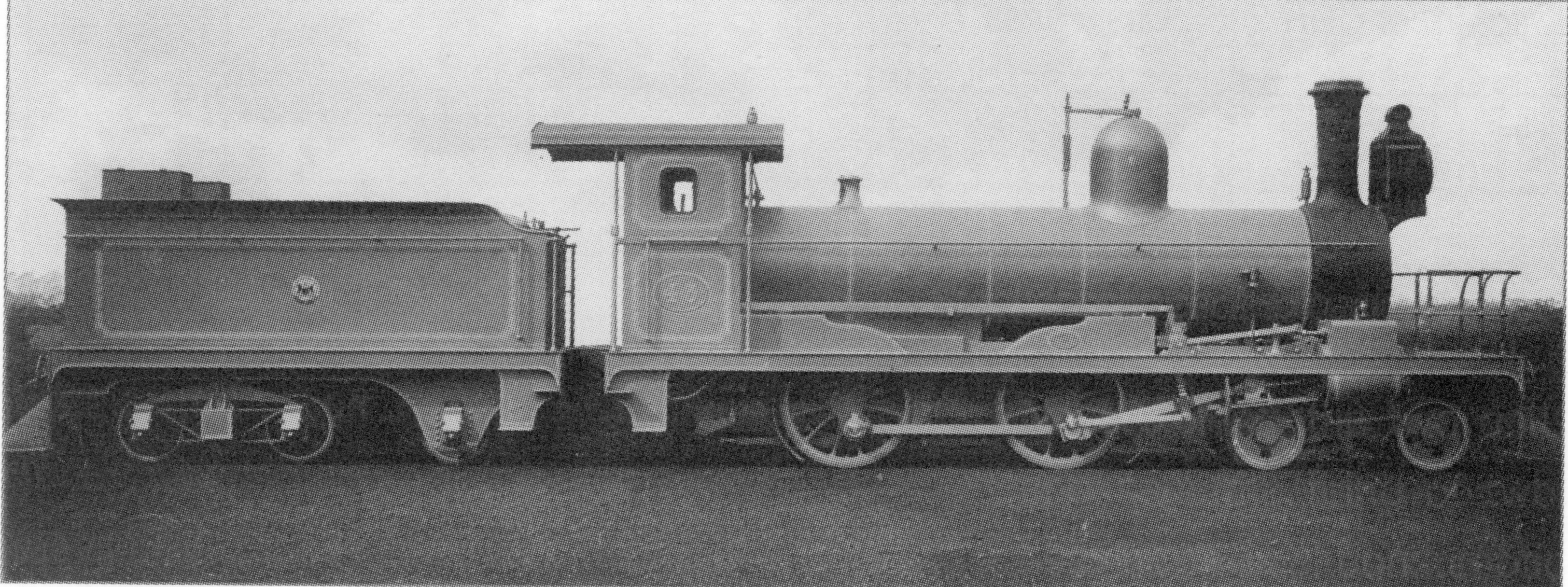 Cape Government Railways experimental 3rd Class 4-4-0 of 1884